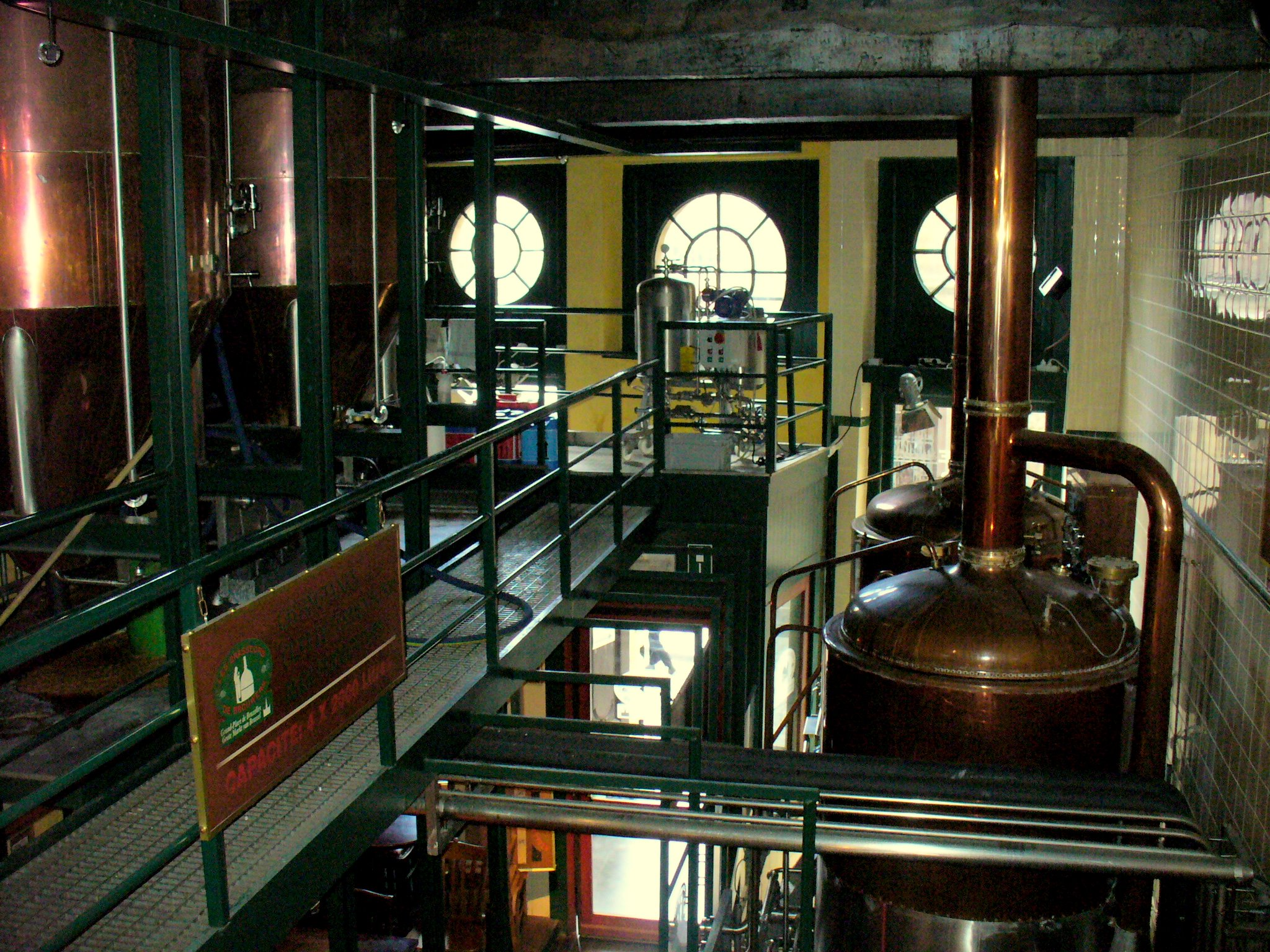 Grand Place brewpub in Brussels